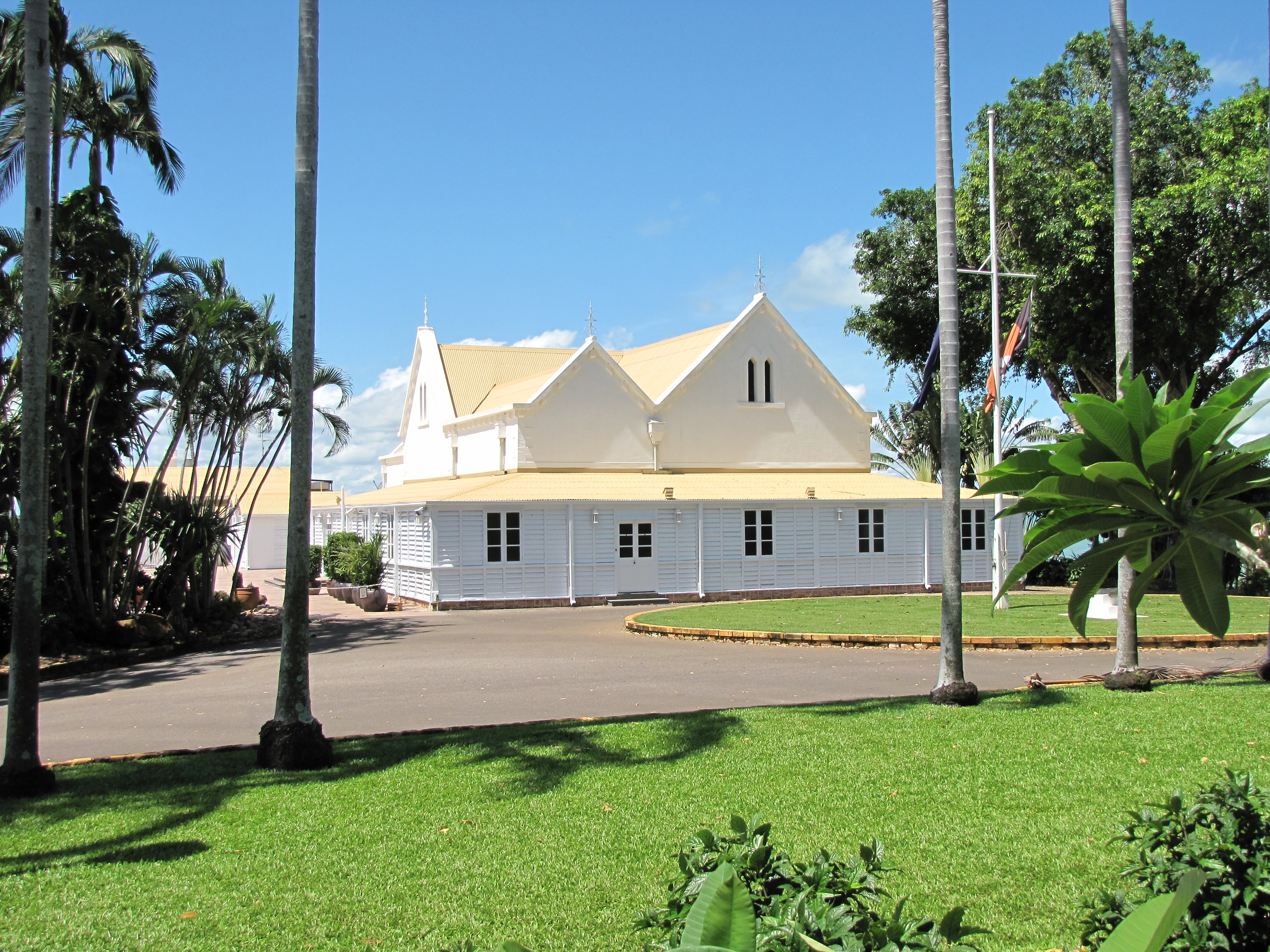 A front view of the official residence of the Administrator of the Northern Territory. Also known as the House of the Seven Gables this official building has grown through many extensions since the 1860s.